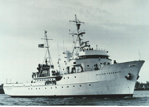 The United States Fish and Wildlife Service Bureau of Commercial Fisheries fisheries and oceanographic research ship Miller Freeman in Lake Erie off Ohio just after her completion. She later served in the National Oceanic and Atmospheric Administration as NOAAS Miller Freeman (R 223)